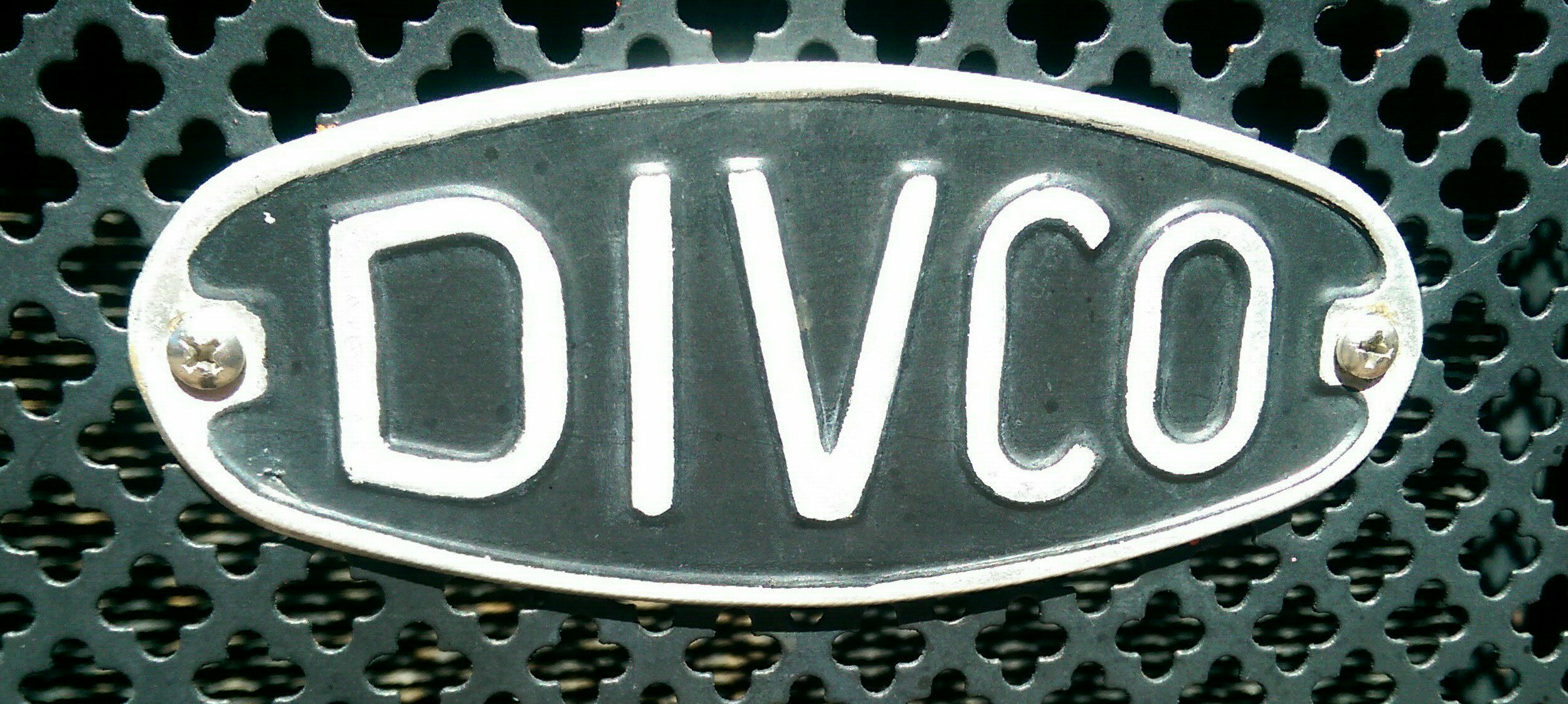 The badge on a Divco delivery truck, restored as a hot dog truck. Photo taken in Napa, California, by Jim Heaphy.